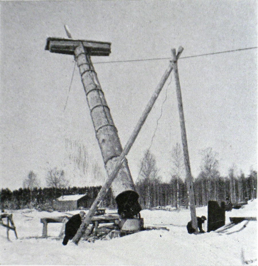 Rising the assembled cast used to make poles for the Forsby-Köping limestone cableway ("Kalklinbanan").